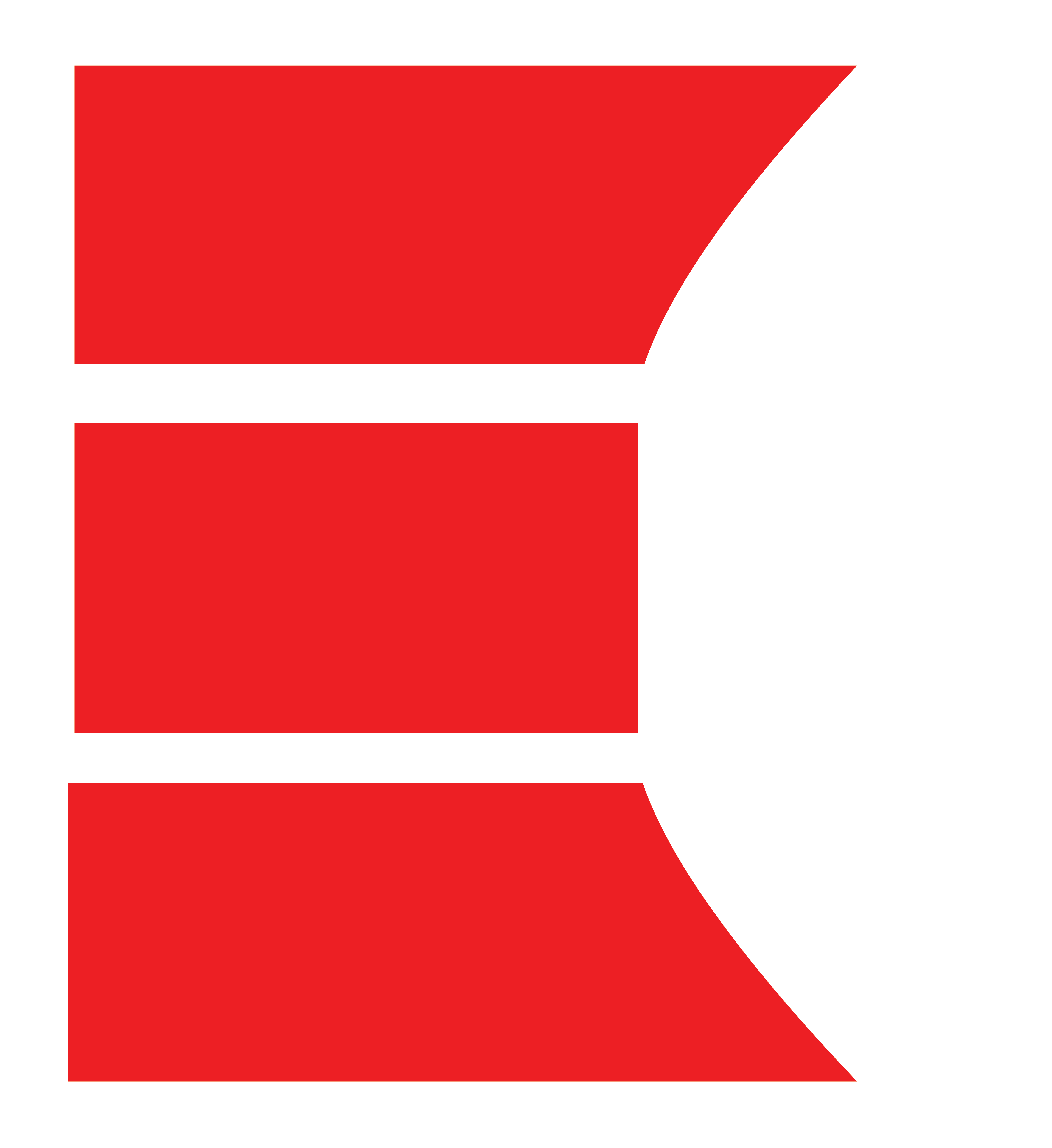 Based on David Nicolle "Armies of the Muslim Conquest" illustrations by Angus McBride. And Martin Hinds "The Banners and Battle Cries of the Arabs at Siffin" Al-Abhath XXIV